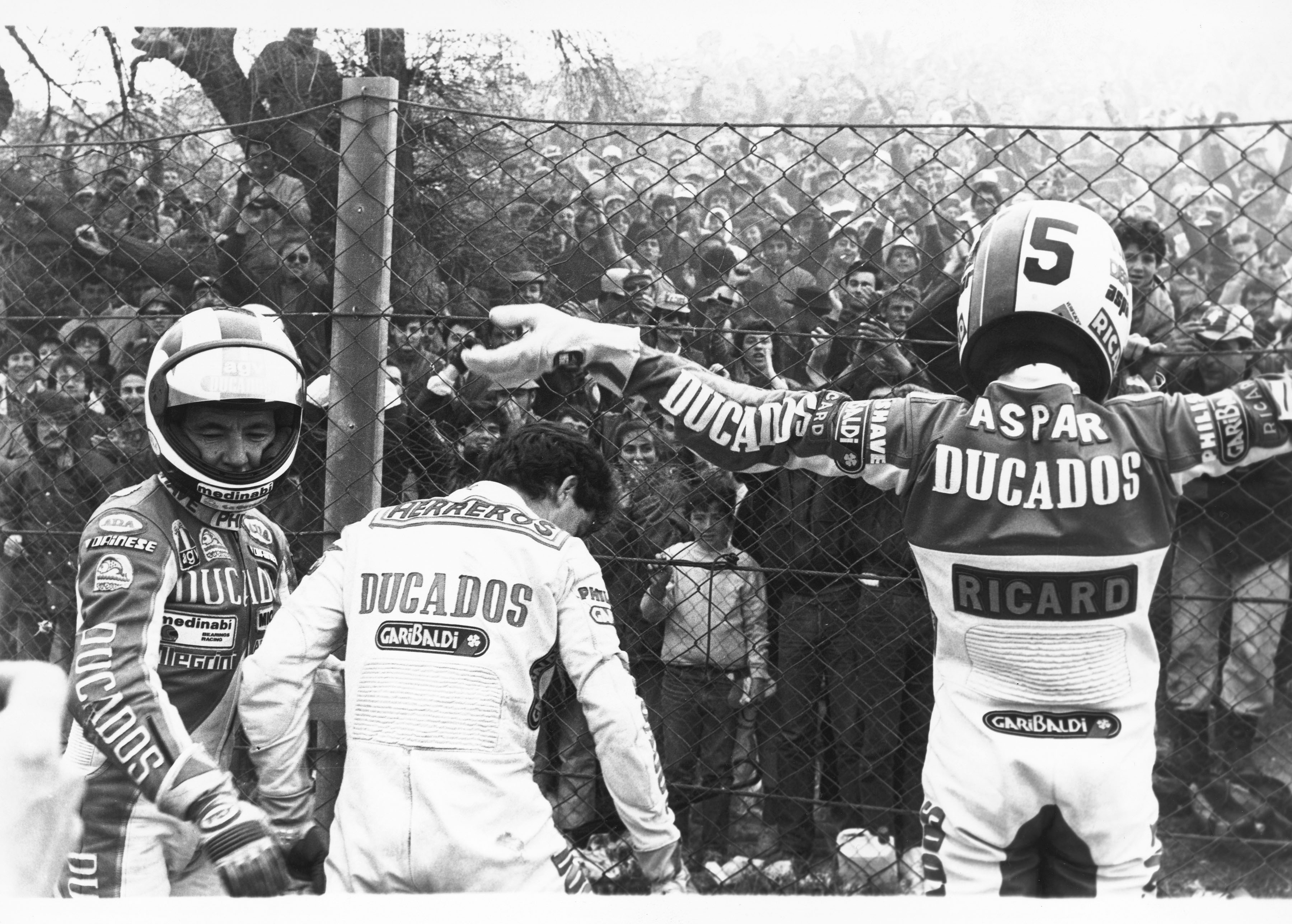 Aspar, Nieto and Herreros achieve the first Spanish treble in the World Championship, in the 80cc class.